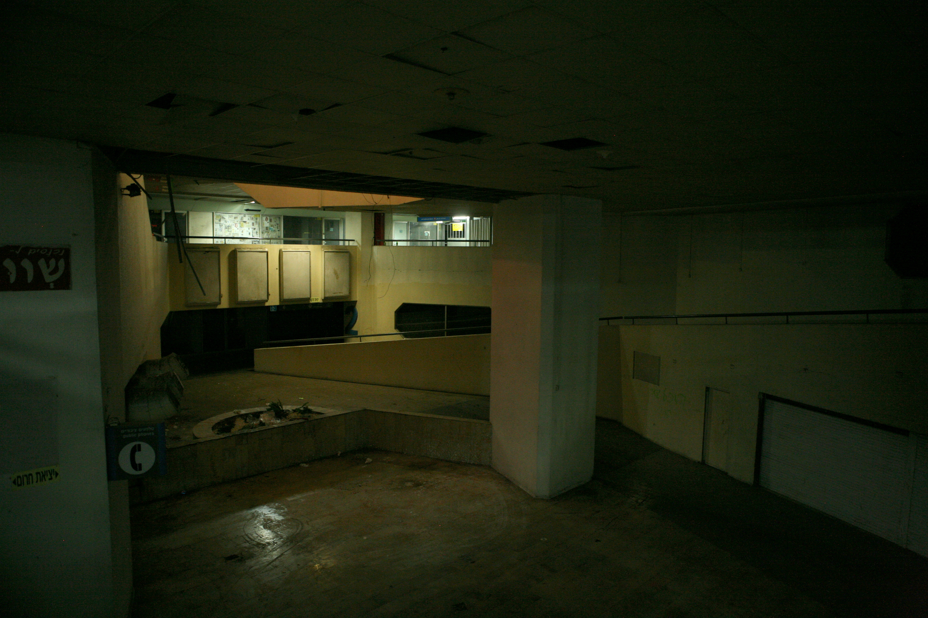 The abandoned and sealed second floor of the Tel Aviv Central Bus Station, 2009